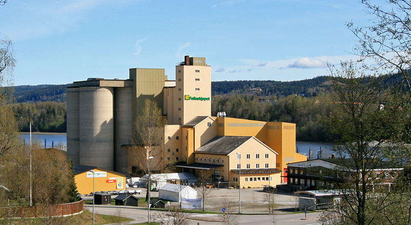 Grain silo, Eidsvoll, Norway.